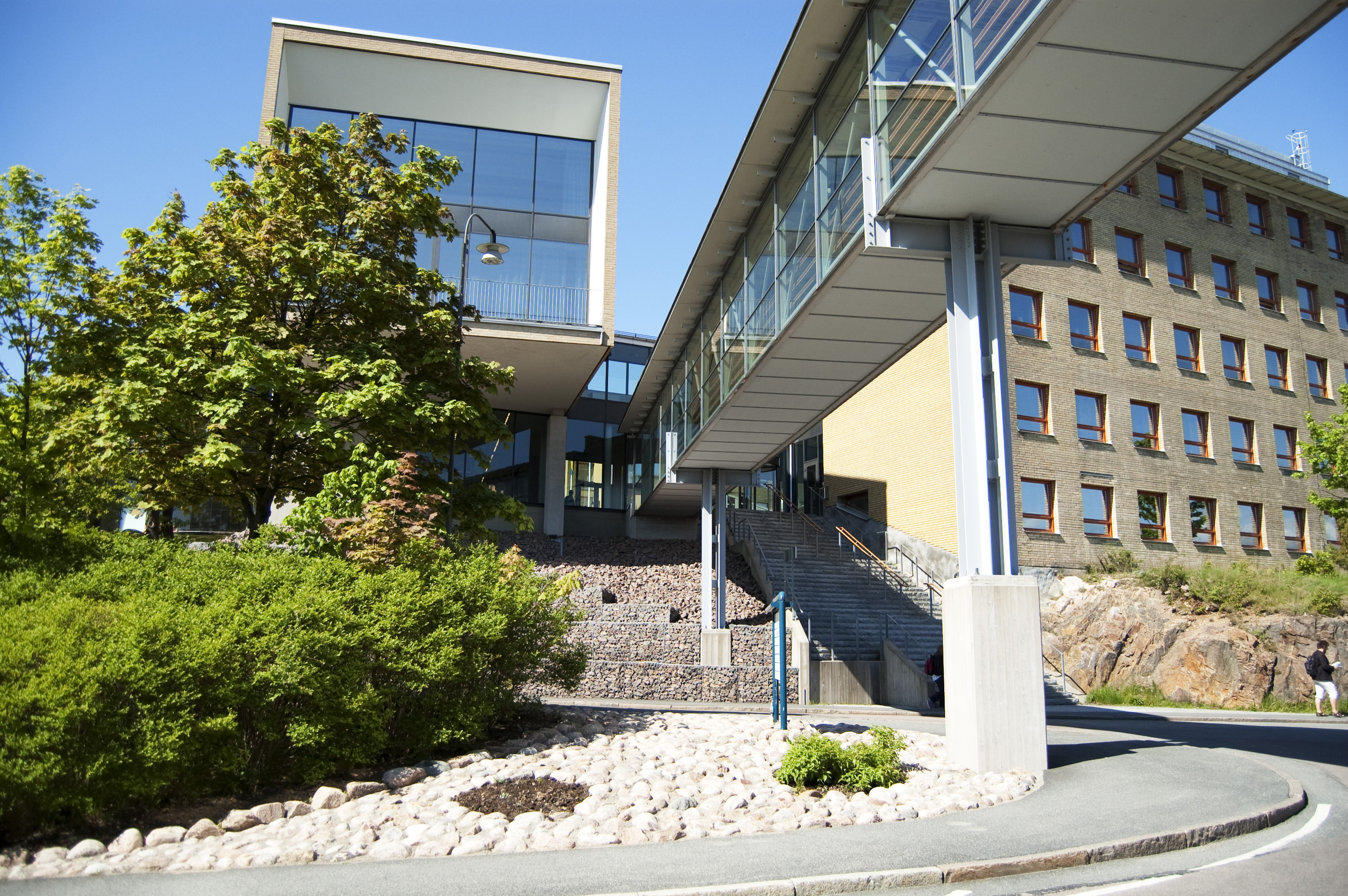 Entrance to the Sahlgrenska Academy, University of Gothenburg, Sweden.